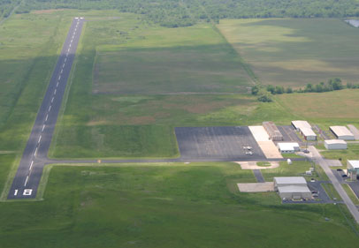 The MidAmerica Airport (H71) is located in the MidAmerica Industrial Park, in Pryor, Oklahoma. The Airport has a 5,000-foot runway capable of handling most business jets, a PAPI system and 24-hour credit fueling system with both jet fuel and avgas. The park owns and operates the airport which is classified as regional business airport (RBA).